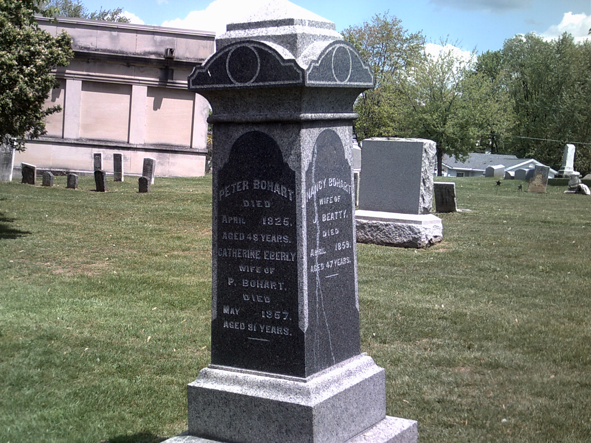 Village founder, Peter Bohart's tomb in Grandview Cemetery, Carrollton, Ohio.